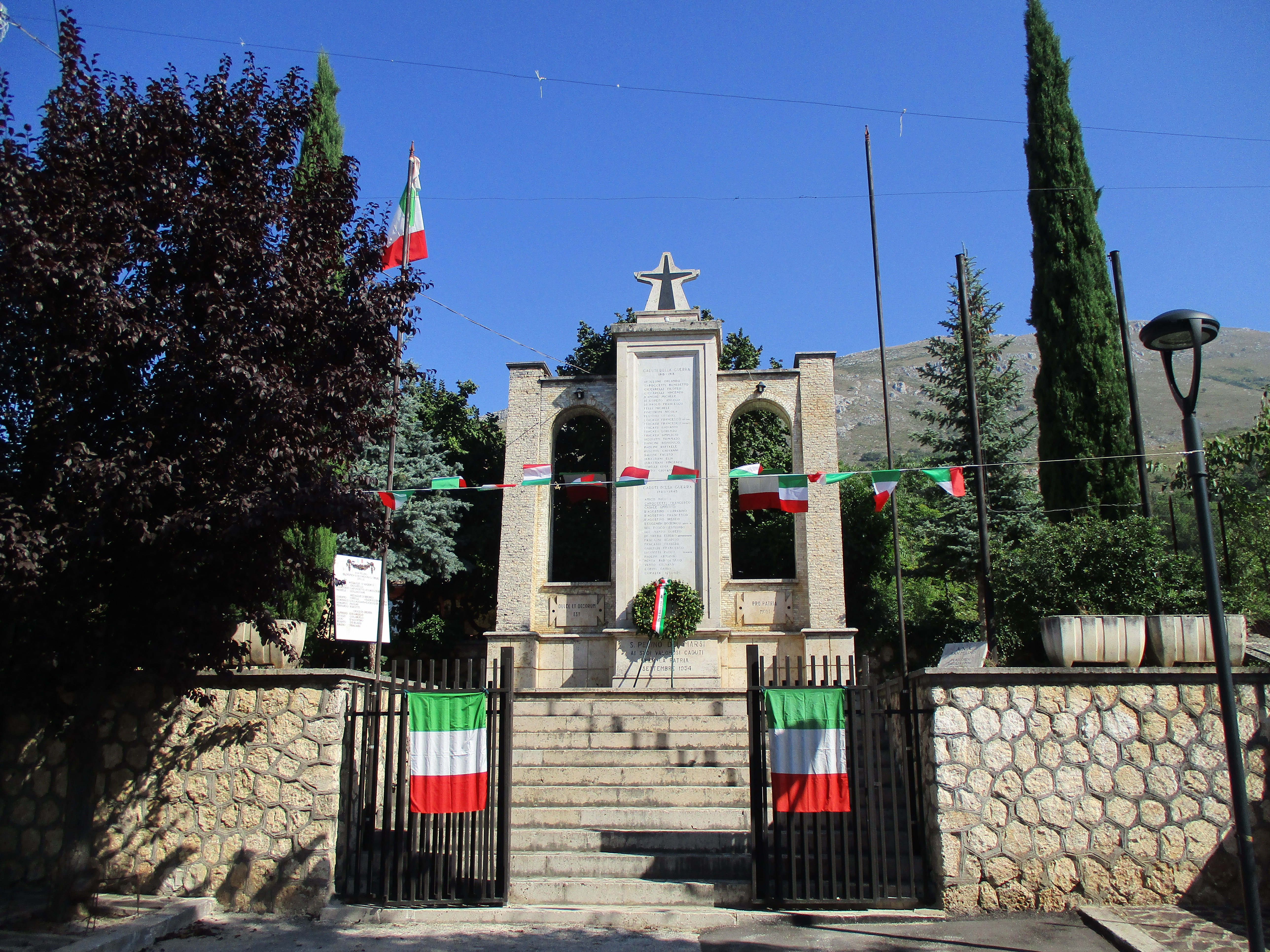 War Memorial of San Pelino, Avezzano, Abruzzo, Italy